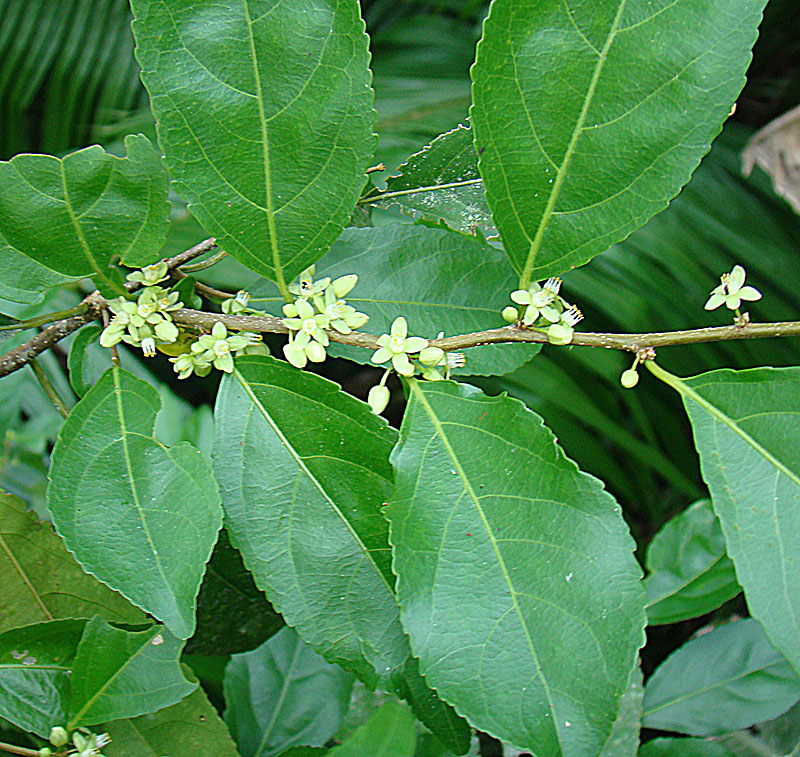 A species of the northern Neotropics, known as Guayanese Wild Coffee. Photo from Guatusos Reserve, southern Nicaragua.